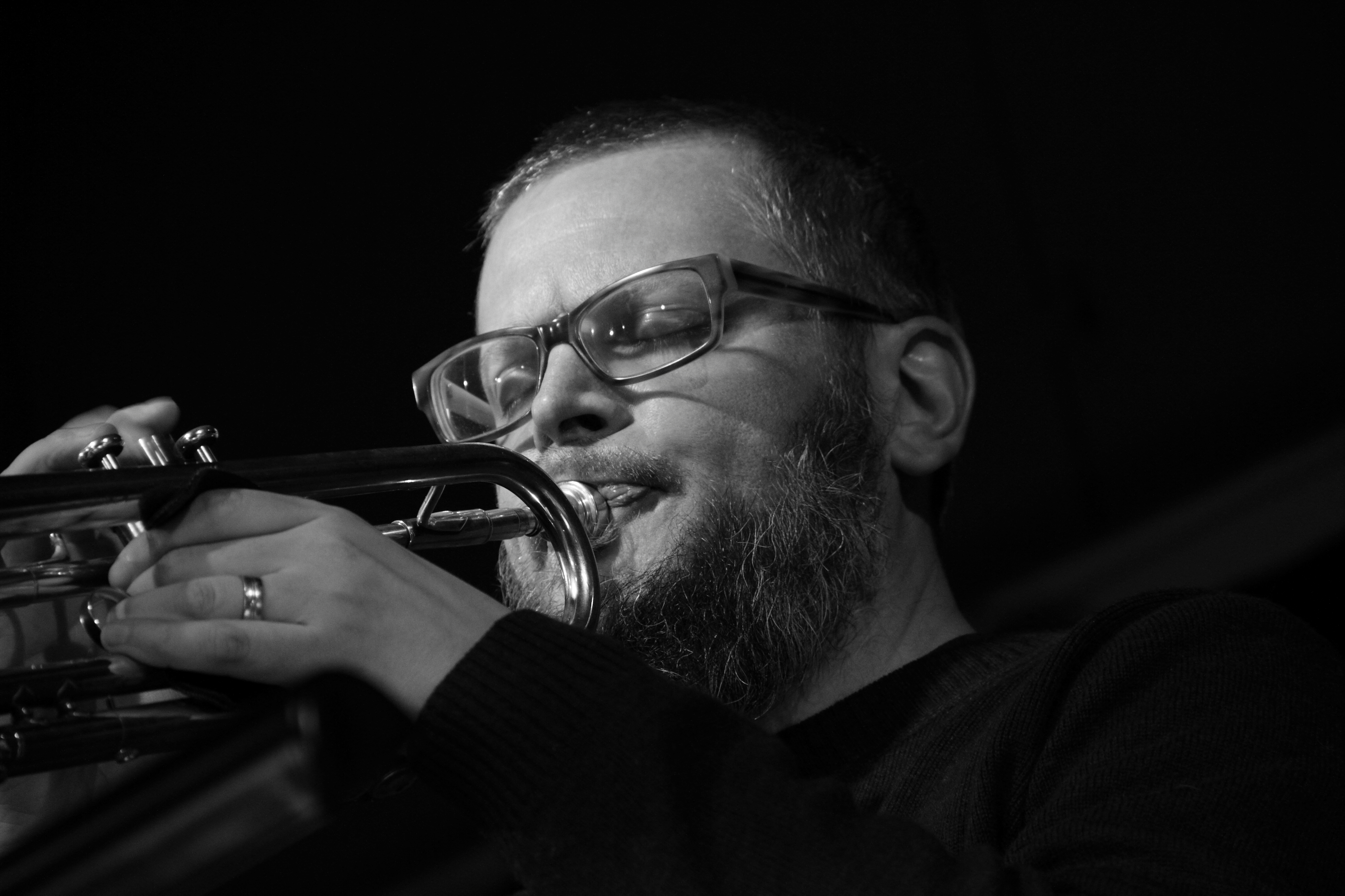 The Nate Wooley Quintet in concert at Club W71, Weikersheim..